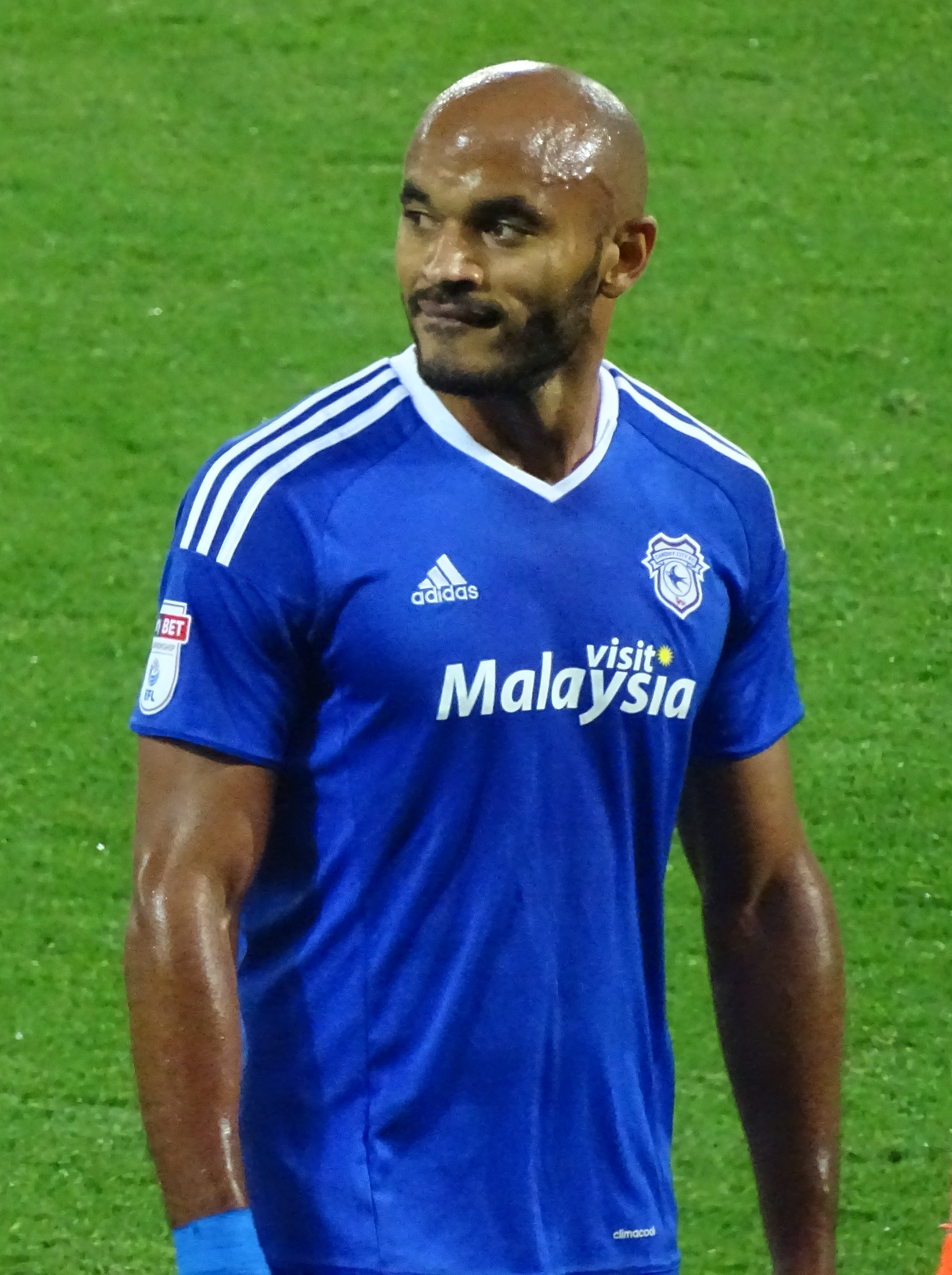 Frédéric Gounongbe playing for Cardiff City